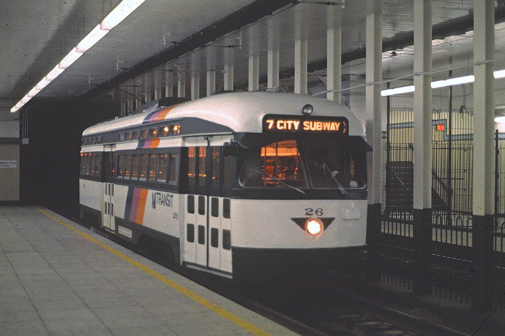 NJT PCC #26 in the City Subway in April of 1985. This car was later (2005) sold to the City of Bayonne for a new trolley line